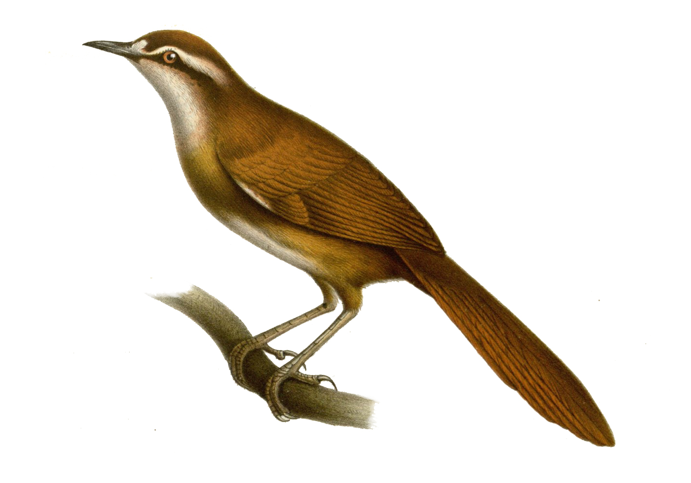 Megalurulus mariei